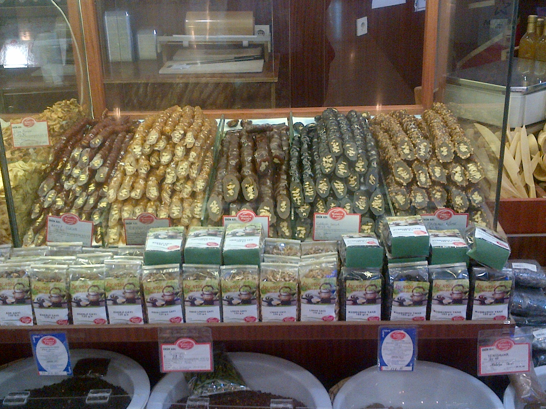 Turkish "cevizli sucuk", in Ankara.